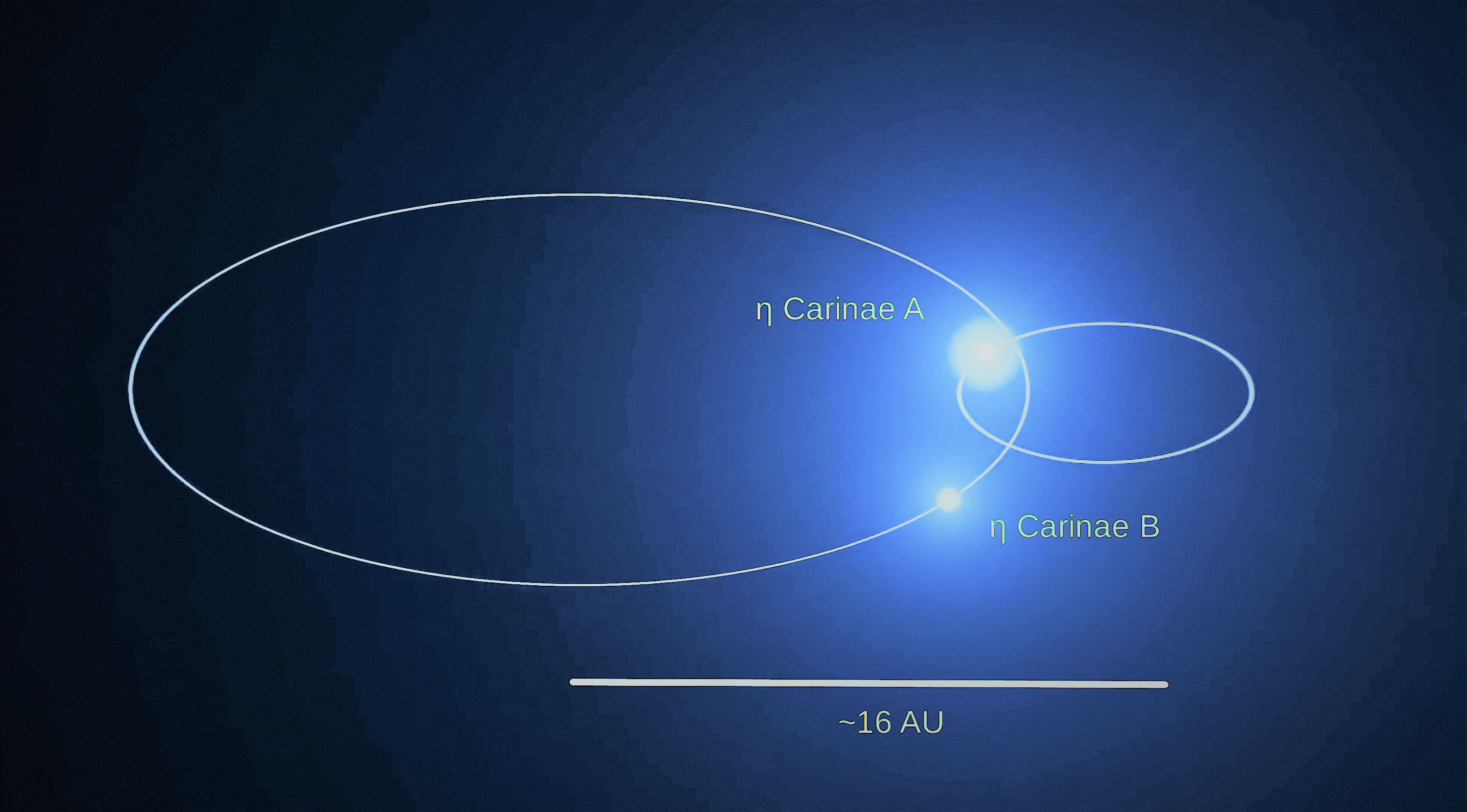 Orbit of the Eta Carinae binary star system. Image based on the NASA Goddard video at